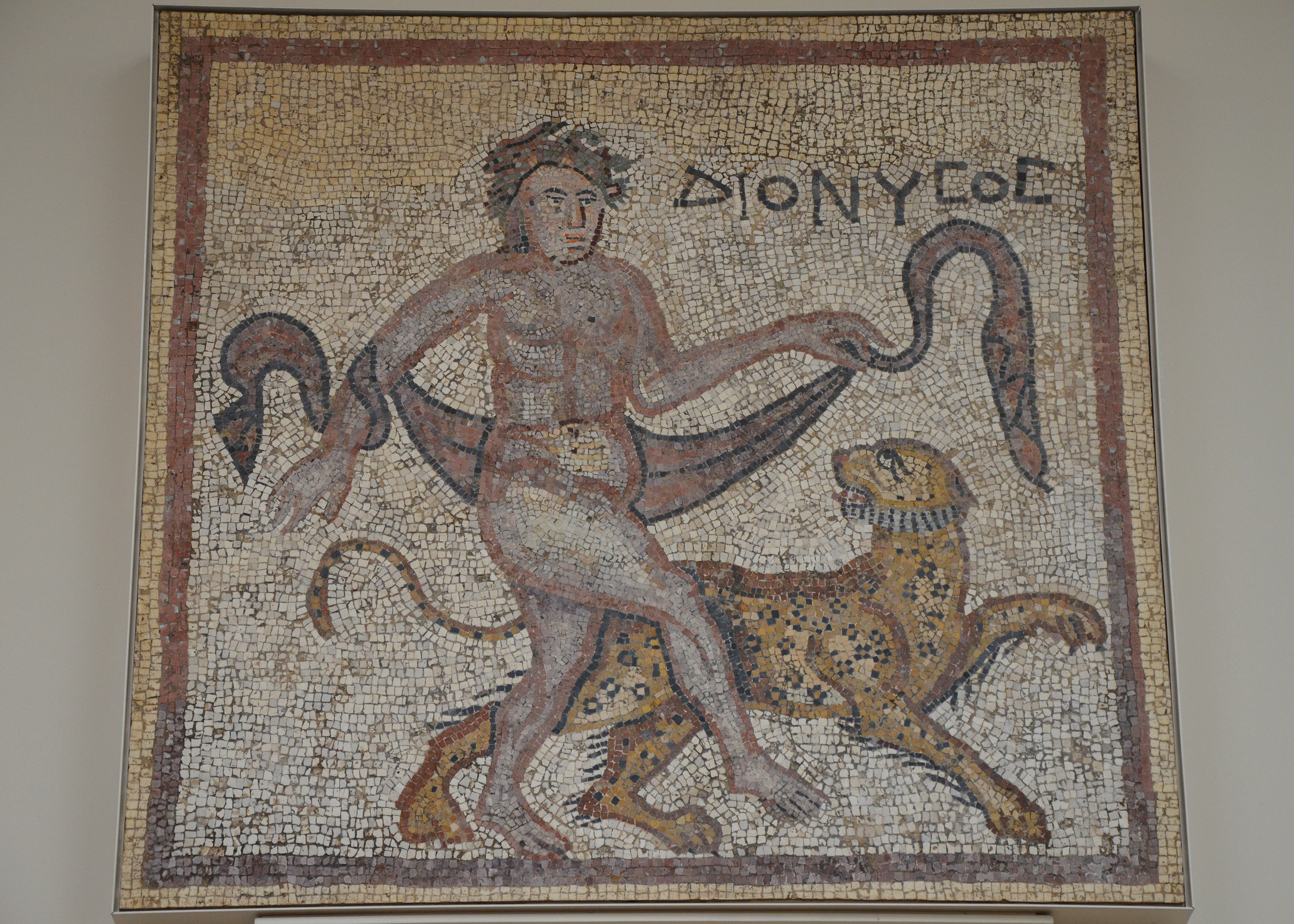 Part of a panel from a mosaic pavement: the god of wine Dionysos dances with a panther, from Halicarnassus, 4th century AD, Roman Empire, British Museum